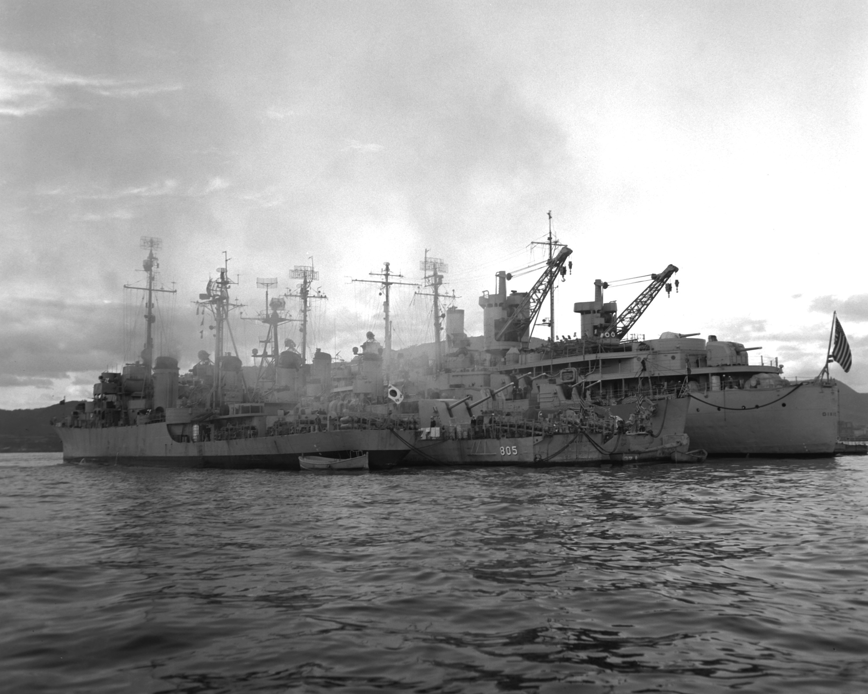 A South Korean frigate tied up alongside the U.S. Gearing-class destroyer USS Chevalier (DD-805), two unknown U.S. destroyers, and the destroyer tender USS Dixie (AD-14), off the coast of Korea on 6 December 1950.